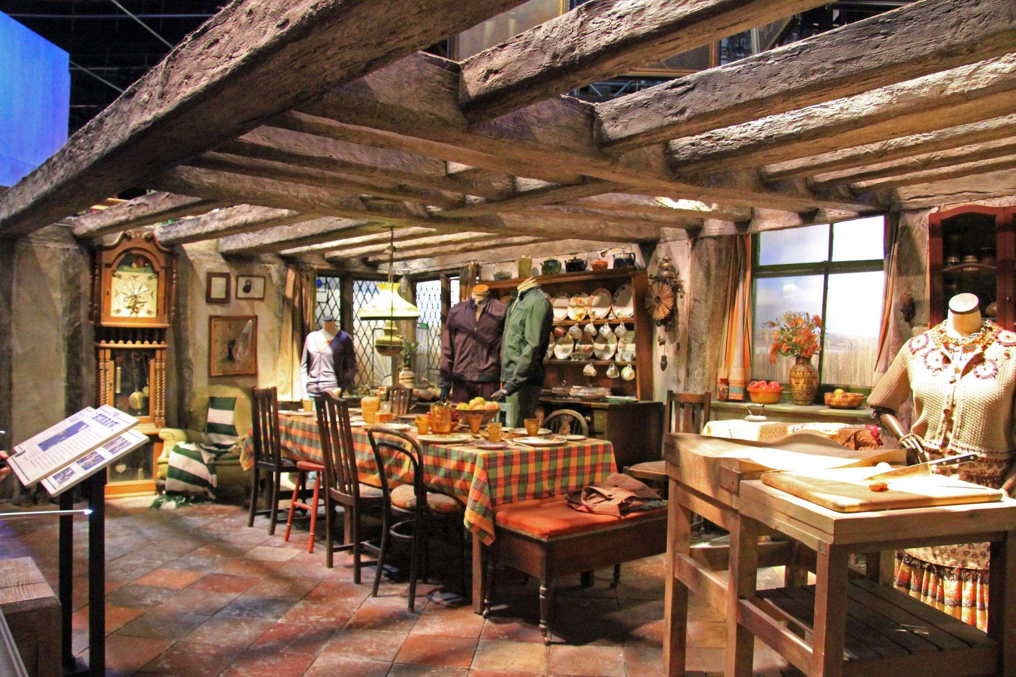 Warner Bros. Studio Tour London: The Making of Harry Potter.